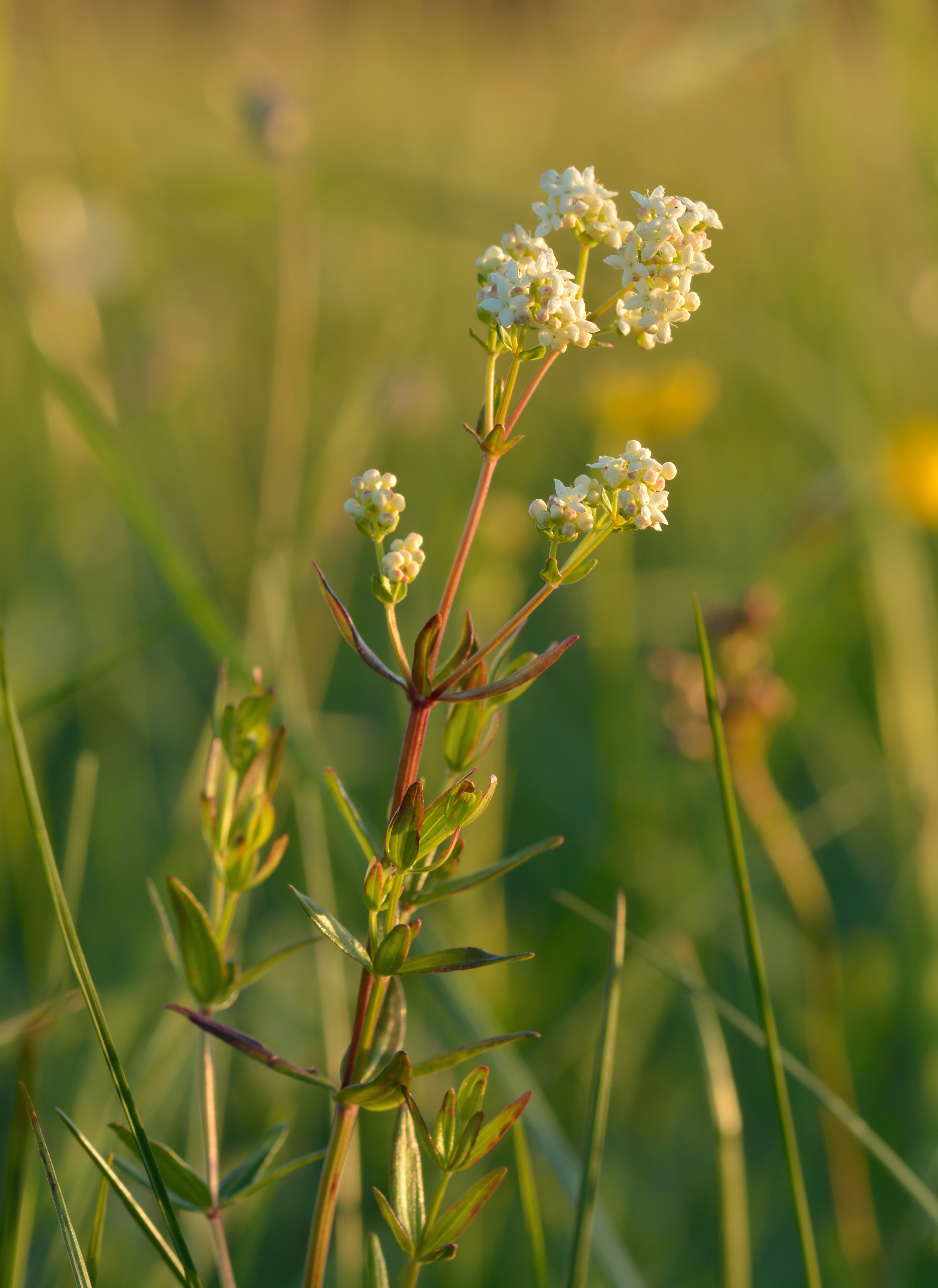 Galium boreale - northern bedstraw in Keila, Northwestern Estonia.